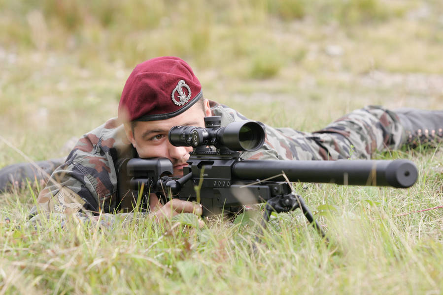 Slovenian sniper